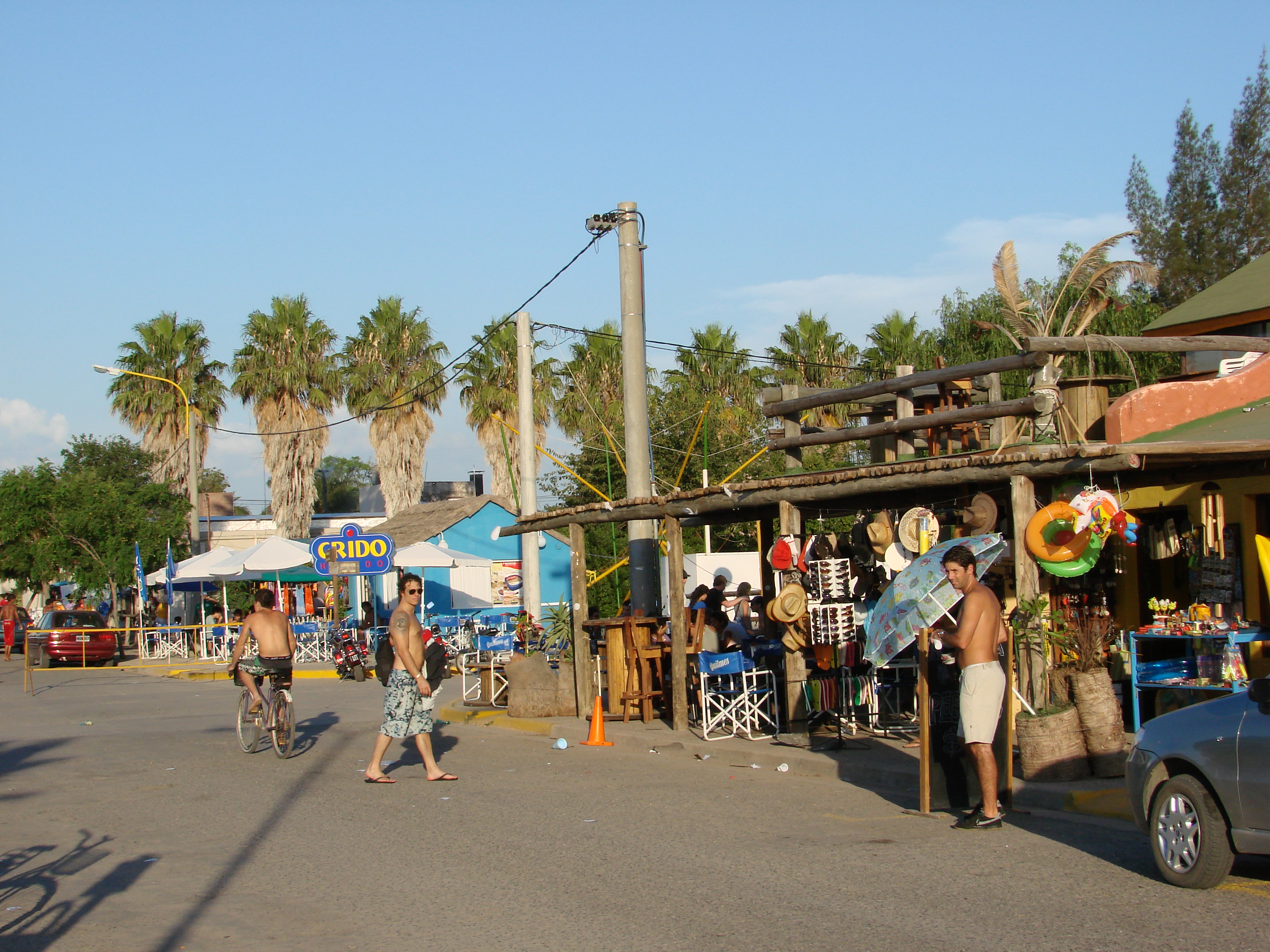 Street of Miramar Village,in Córdoba Argentina, near of Ansenuza Sea or "Mar Chiquita"